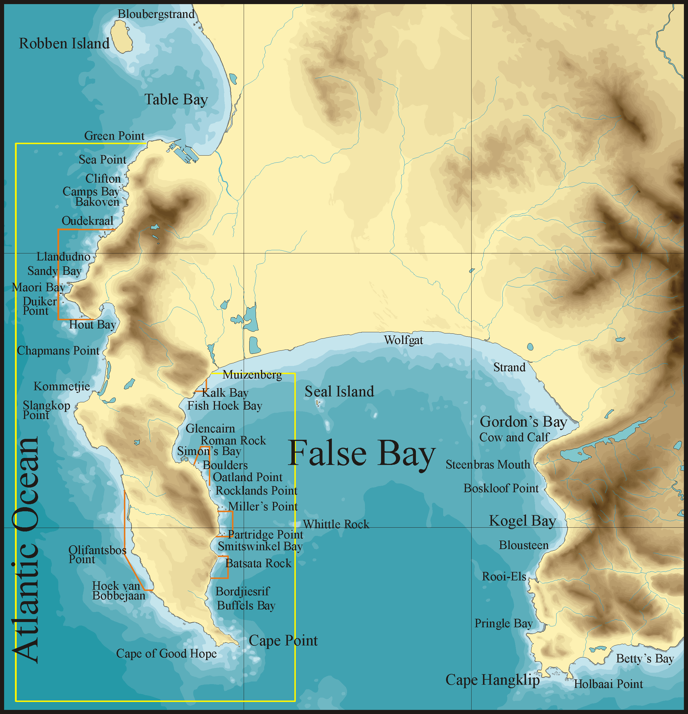 Topographical map of the Cape Peninsula and False Bay including the Hottentot's Holland mountains to Hangklip and bathymetry, with dive site names.